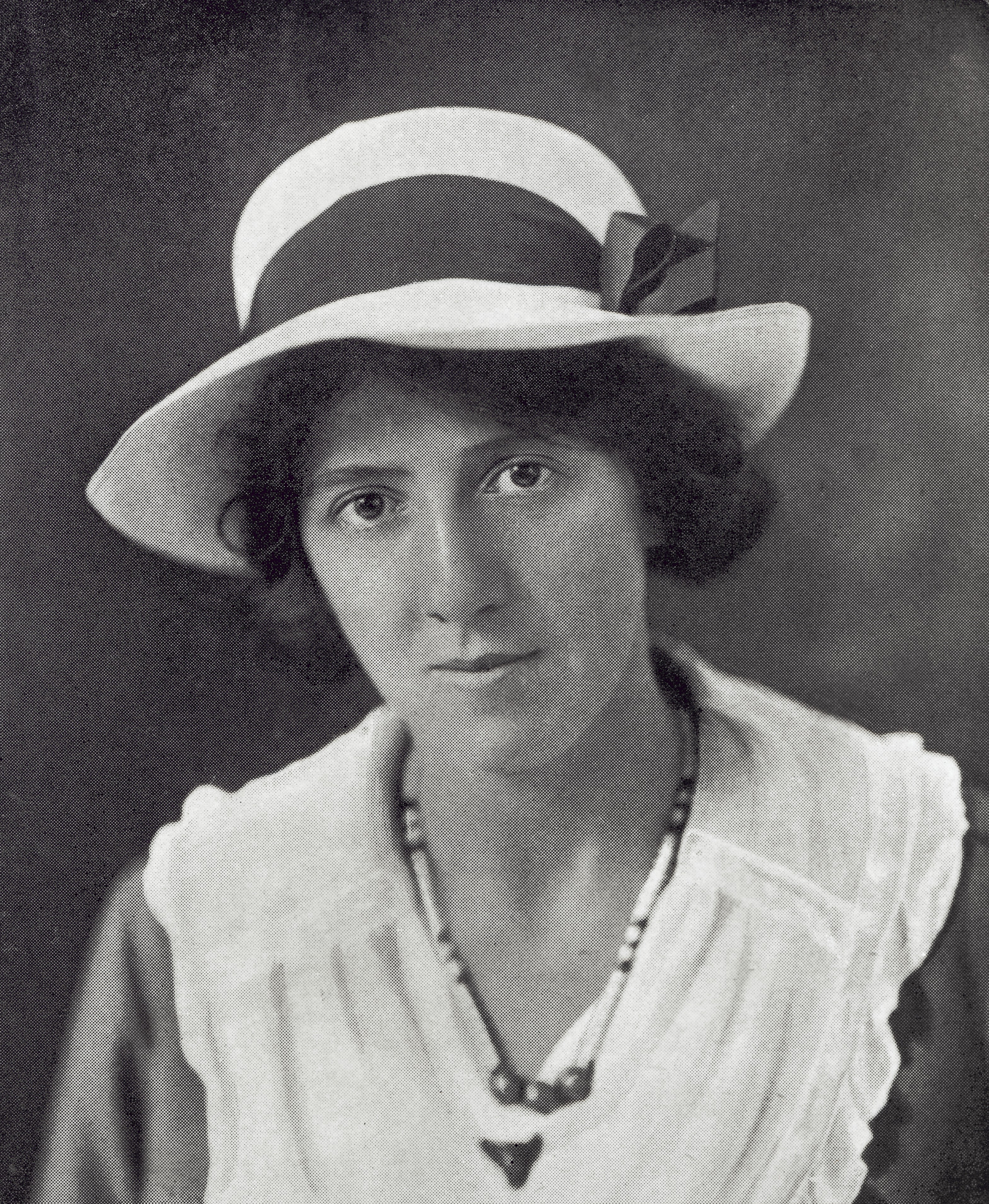 Marie Stopes at the time of the marriage with Mr. H.V. Roe. General Collections Keywords: Marie Carmichael Stopes